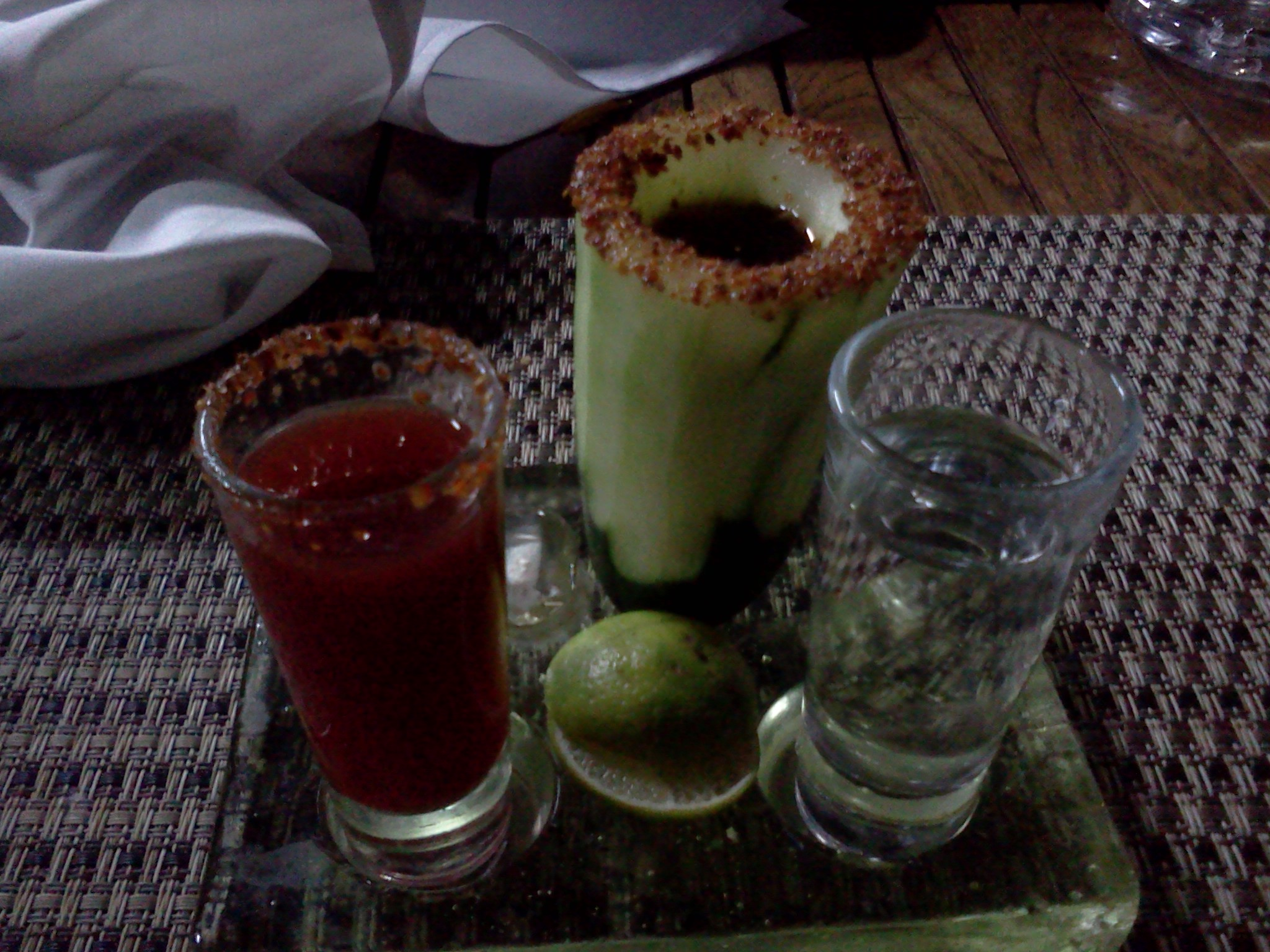 A bandera (spanish for flag) of Tequila, ordered at restaurante Los Girasolesa in Mexiko City.